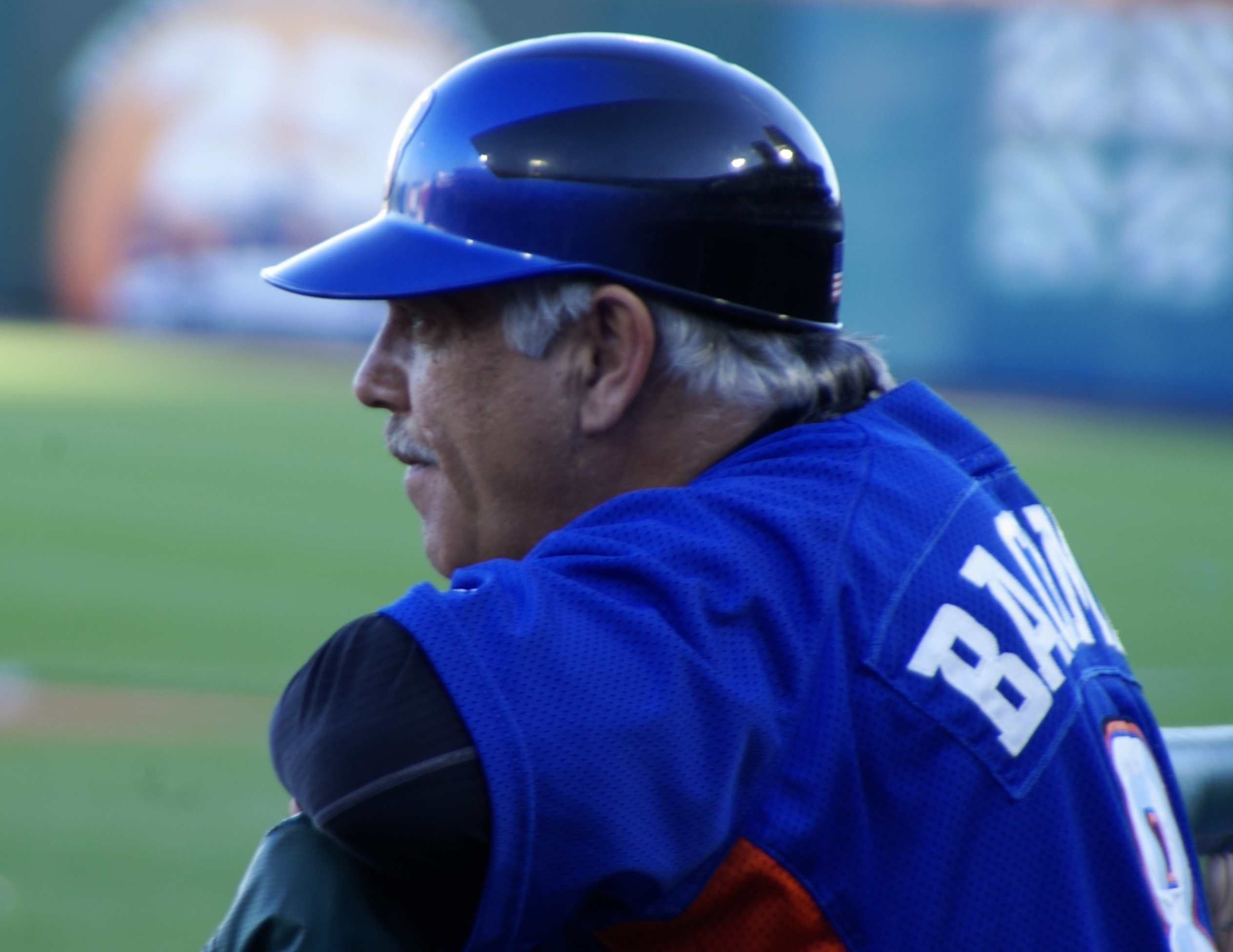 A picture of Buffalo Bisons manager Wally Backman leaning against the dugout in Coca-Cola Field